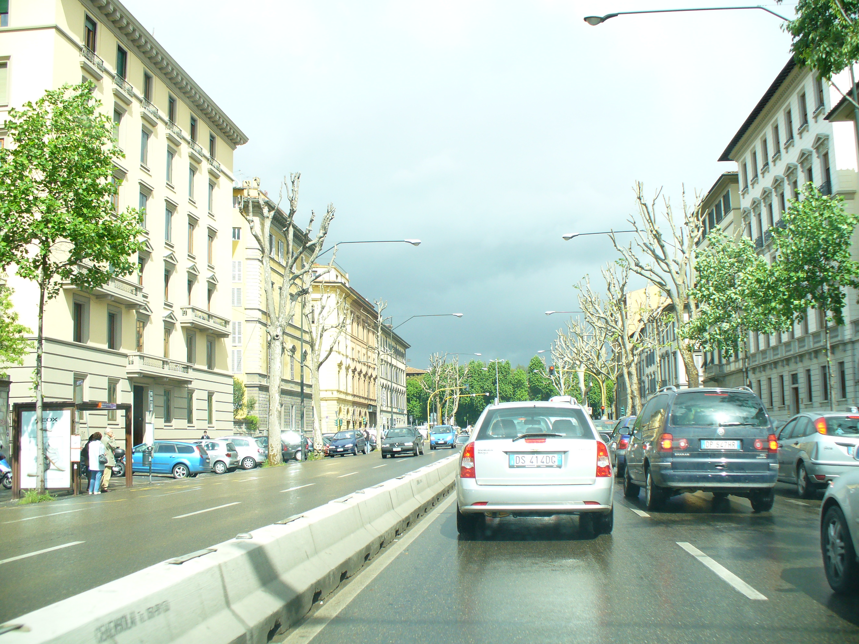 Viale Giacomo Matteotti